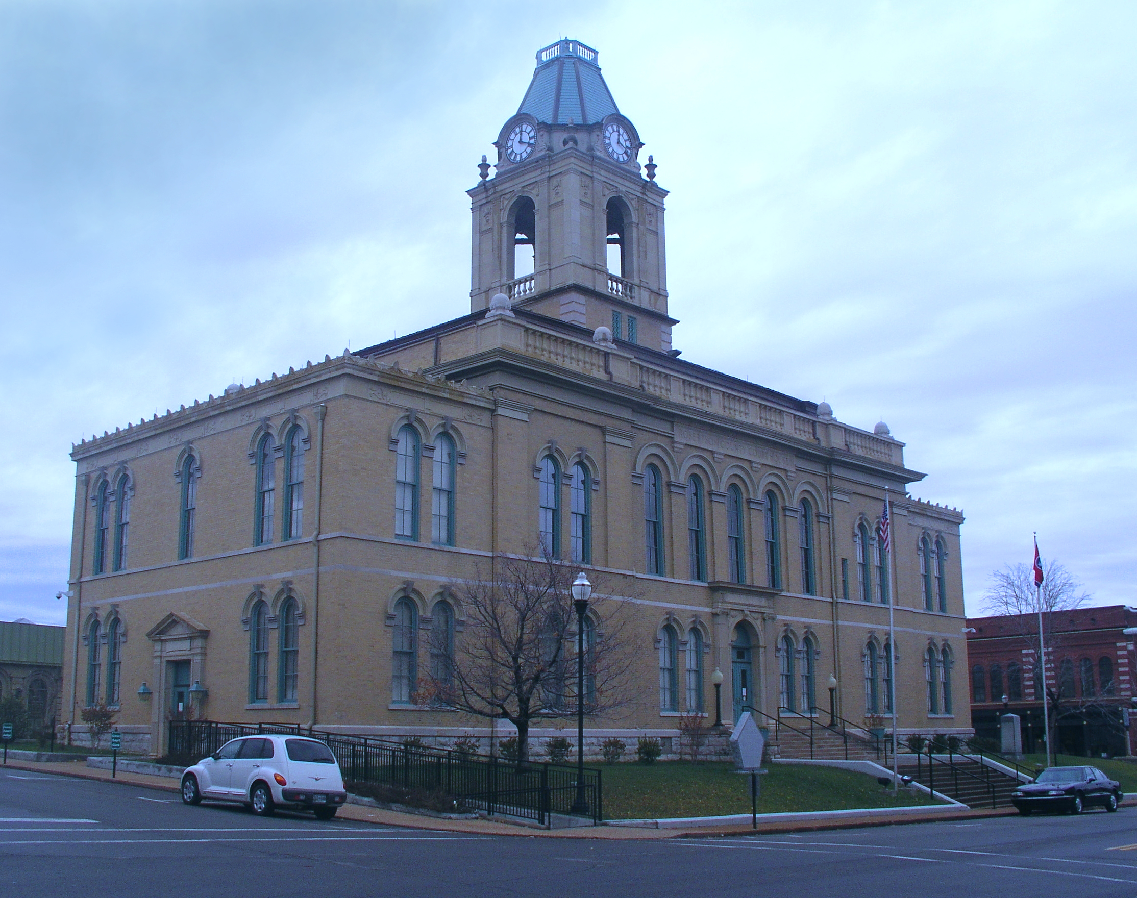 Robertson County courthouse in Springfield, Tennessee, United States